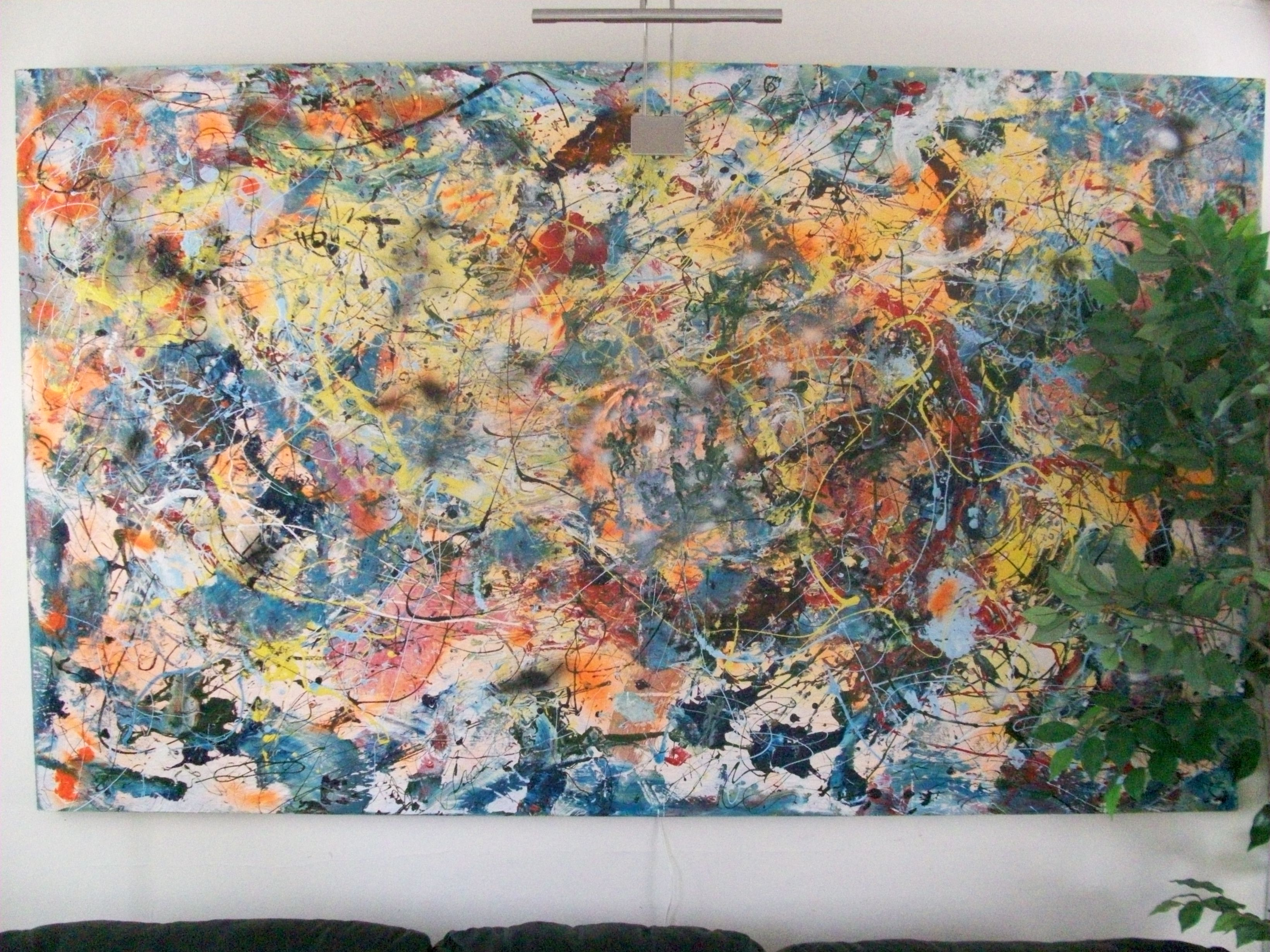 "Tornadoes at sunset" = title. Modern art painting. I wanted a painting but didn't have several thousand dollars for a good one so I made my own similar to Jackson Pollock. I'm a handyman. I put a 4'x8' board (1/2 inch thick) in the driveway, dripped left-over paint using a screwdriver, raked, sprayed fluorescent orange and yellow. I attached a light switch (middle) and light (top) right on the painting itself. Painting, installing light took about an hour. It's on the living room wall. I took this picture. It's free for everybody to use as they please.